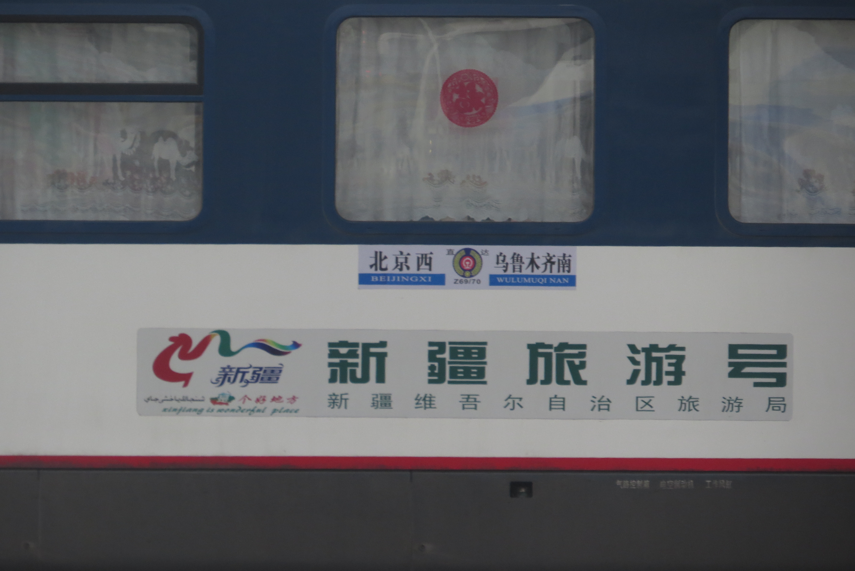 Beijing to Urumqi.